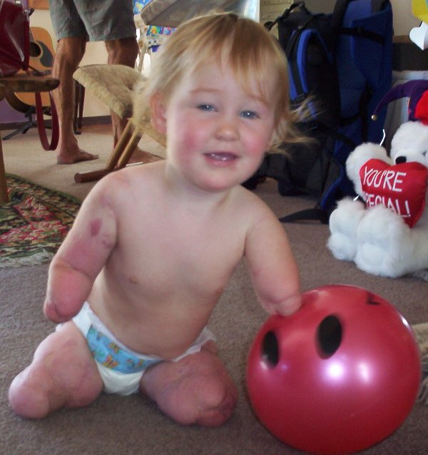 Charlotte Cleverley-Bisman, child who survived amputations of all 4 limbs, and became "the face of" New Zealand's meningococcal meningitis vaccination campaign. Between 1-2 years old.